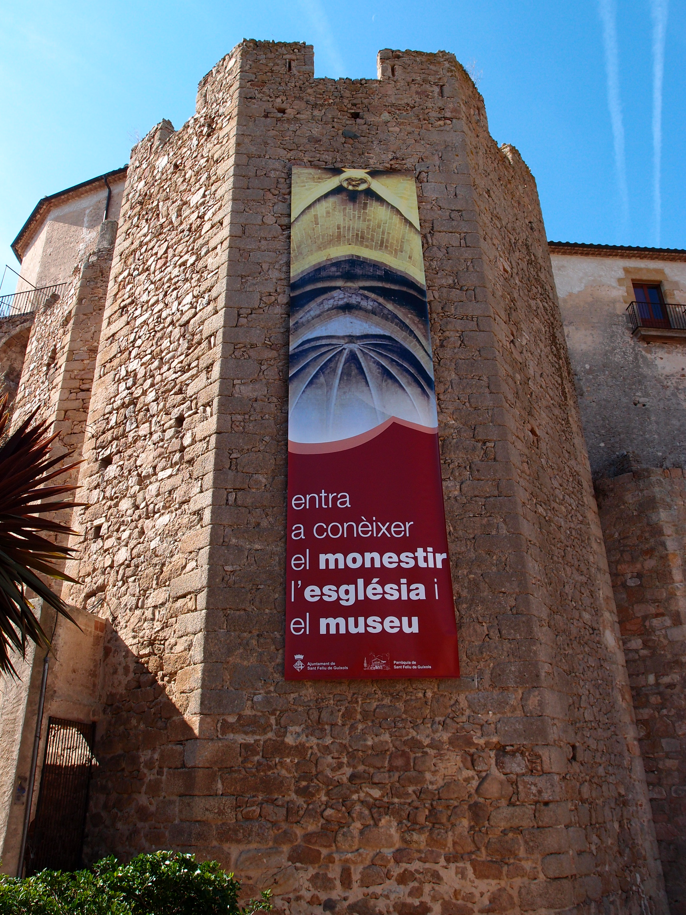 Sant Feliu de Guíxols - Kloster/Kirche (Detailaufnahme) Datum: 23.09.2011 Urheber: M. Pfeiffer alias Benutzer:Gordito1869 Quelle: privates Fotoarchiv des Urhebers